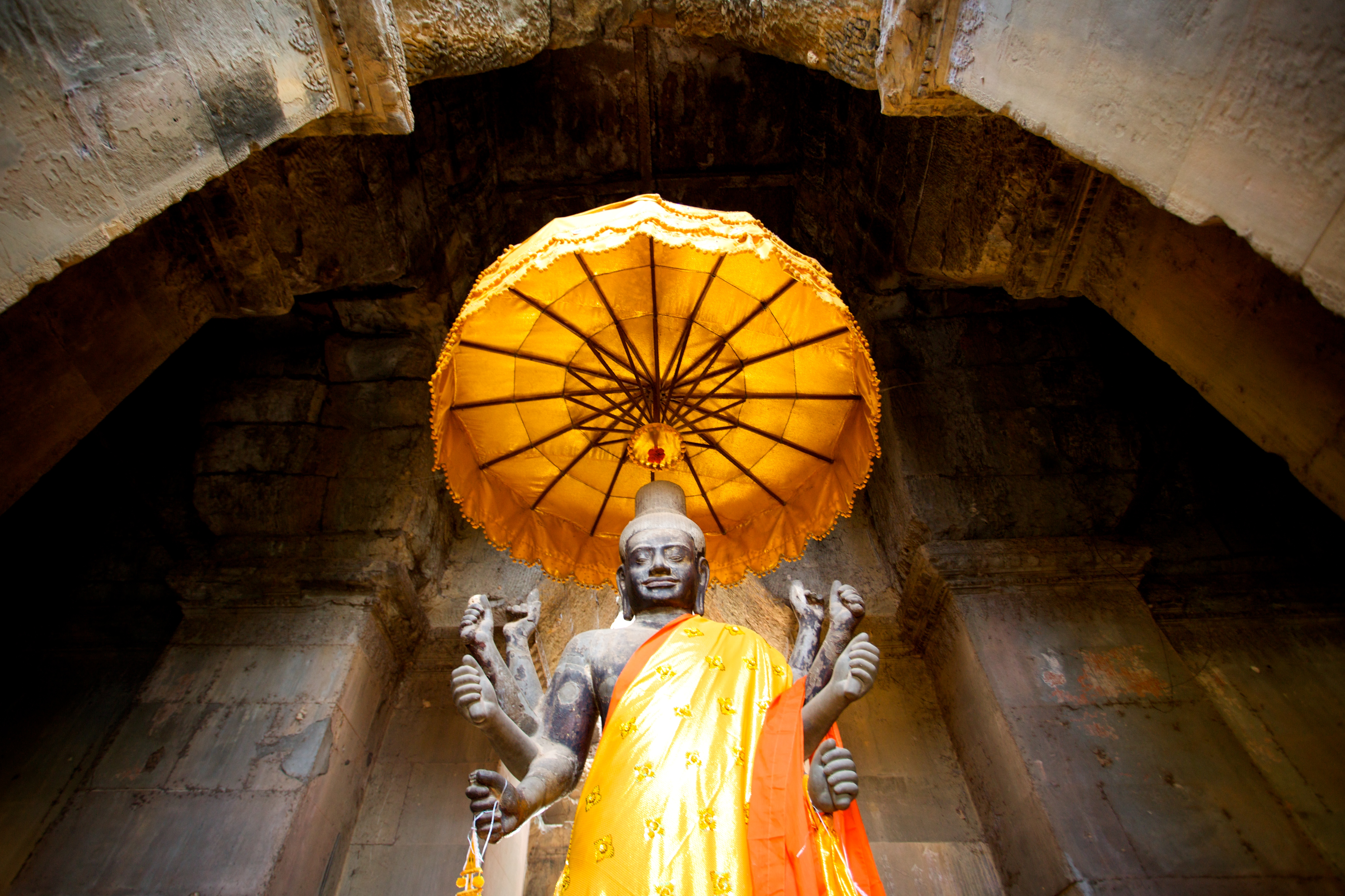 Statue in Ta Reach, Cambodia. " I'm in Cambodia right now, sitting in the hotel lobby, soaking up the available bandwidth. They have file size upload limitations in their firewall which prevent me from uploading the juicy high res stuff. So check back in a week or two for the full resolution images in all 21 glorious megapixels." Featured on Flickr Explore* Mark J. Sebastian